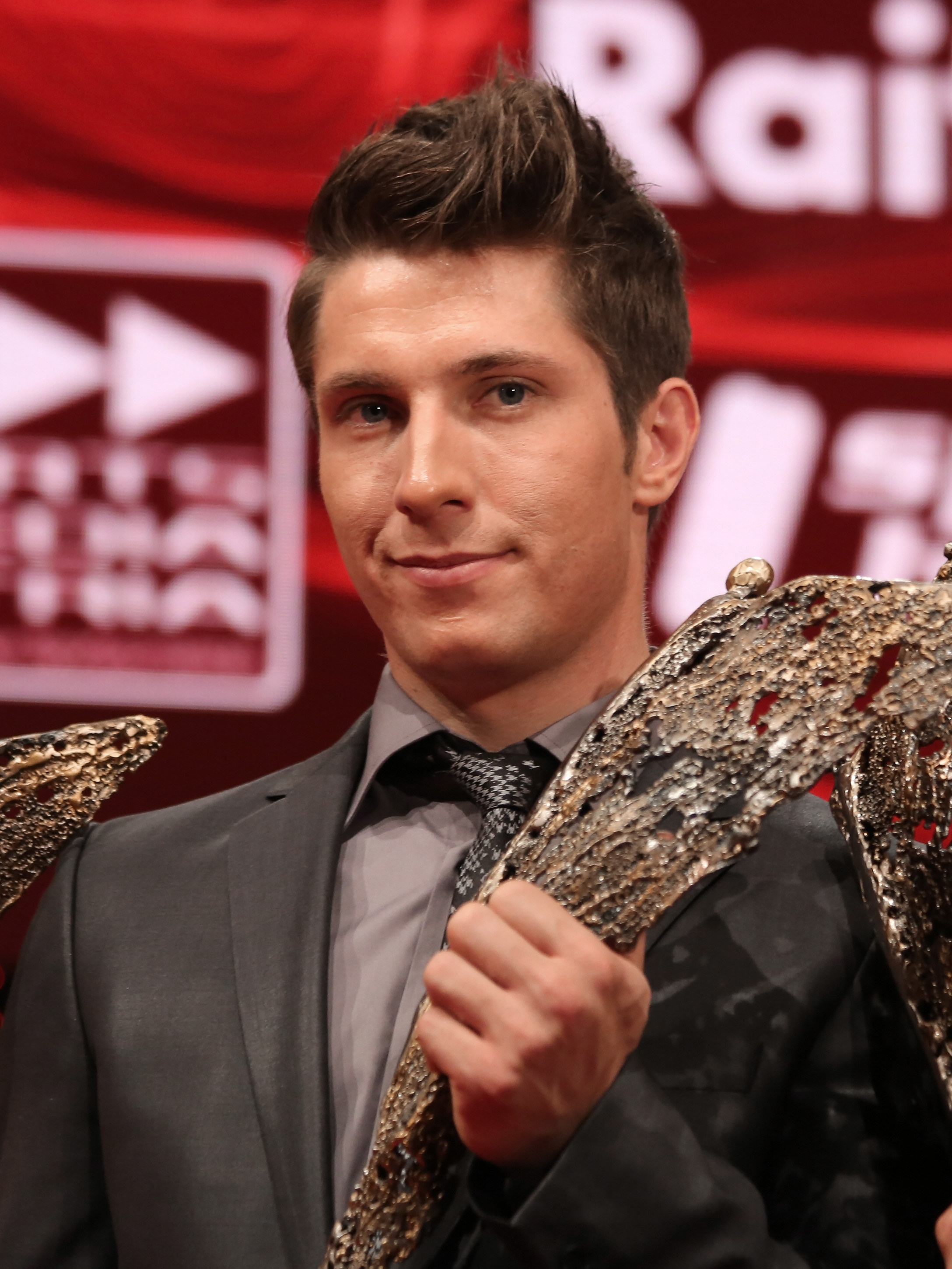 Marcel Hirscher: Austrian Sportsperson of the year 2012 (male).